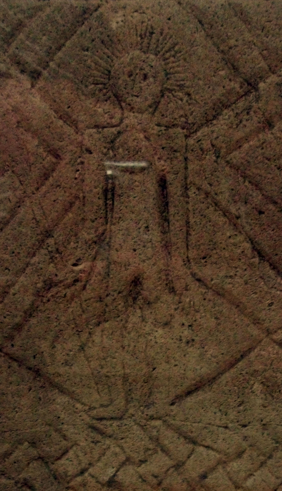 Figure carved on the back of the 7th-century grave stele of Niederdollendorf, an example of the early presence of Christianity in the Rhineland. The figure is holding a lance and has a halo of rays emanating from its head; it is assumed to depict Jesus Christ.